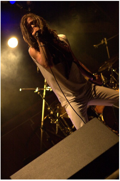 Alan Always in Norwegian rockband Rangers